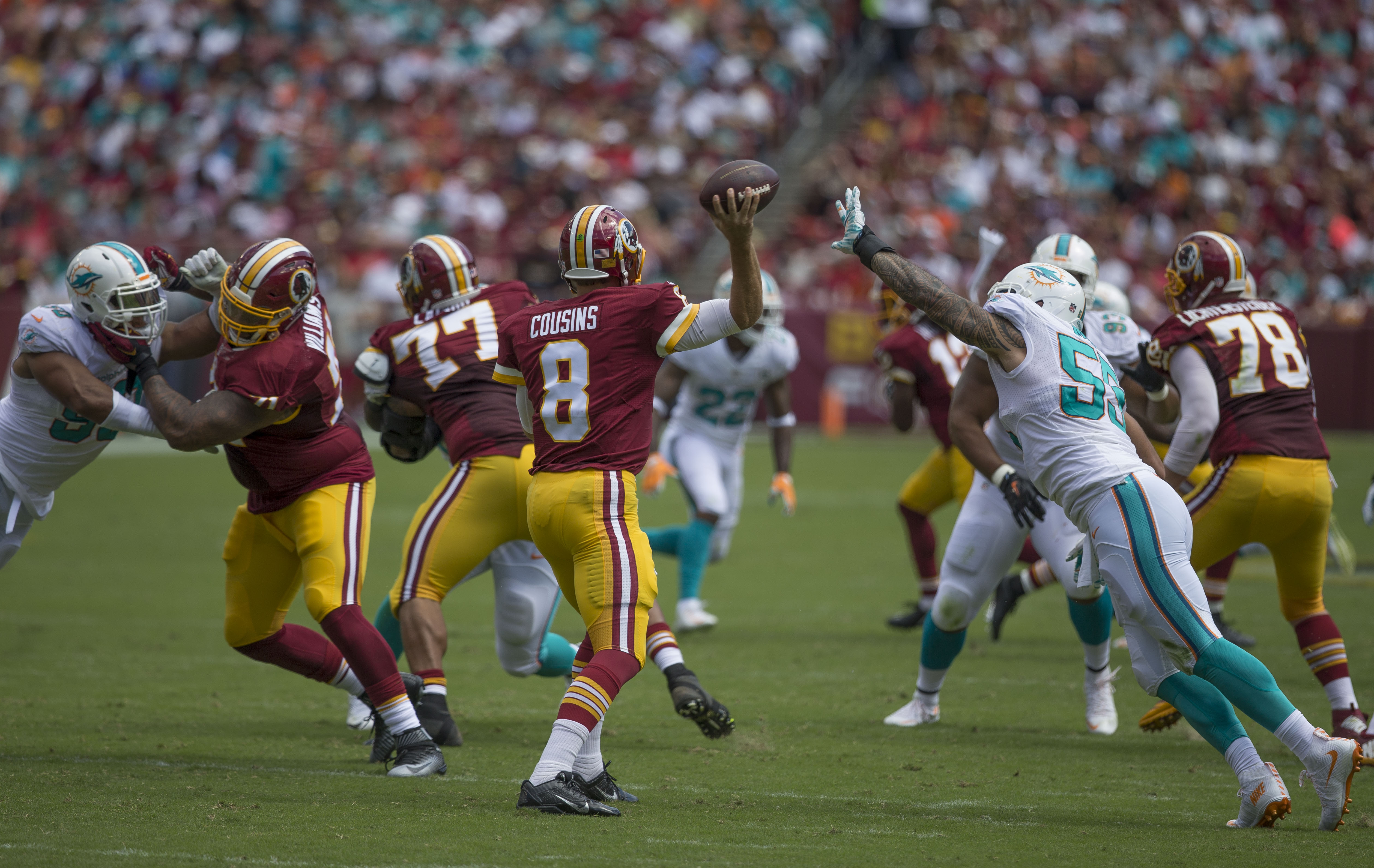 Dolphins at Redskins 9/13/15